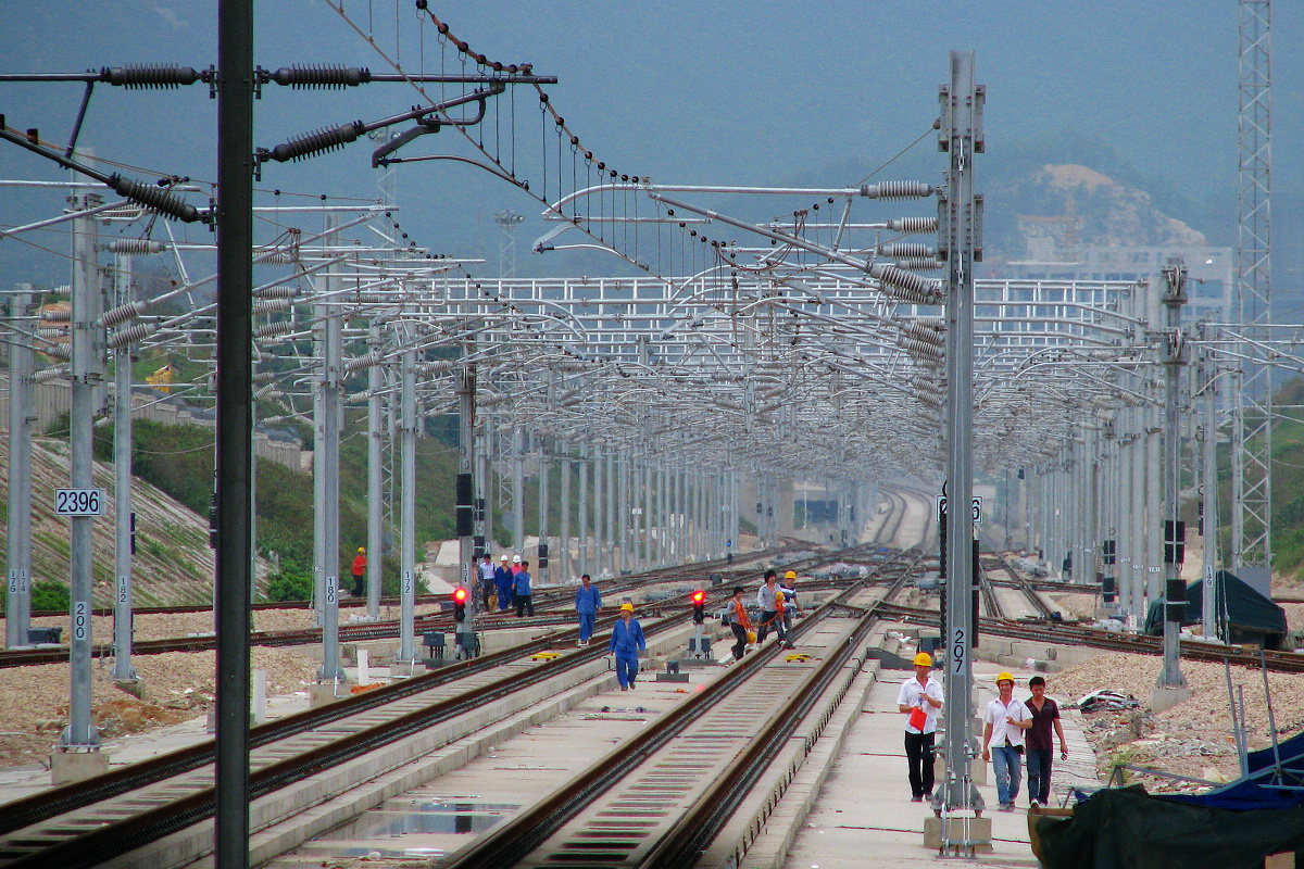 Shenzhen section of Guangzhou-Shenzhen-Hong Kong High-speed Railway in construction.